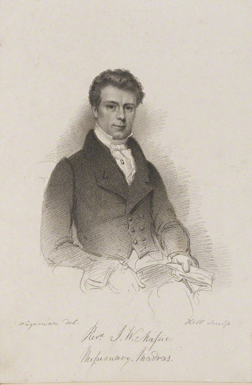 Portrait of James William Massie (1799–1869), Scottish minister and missionary.